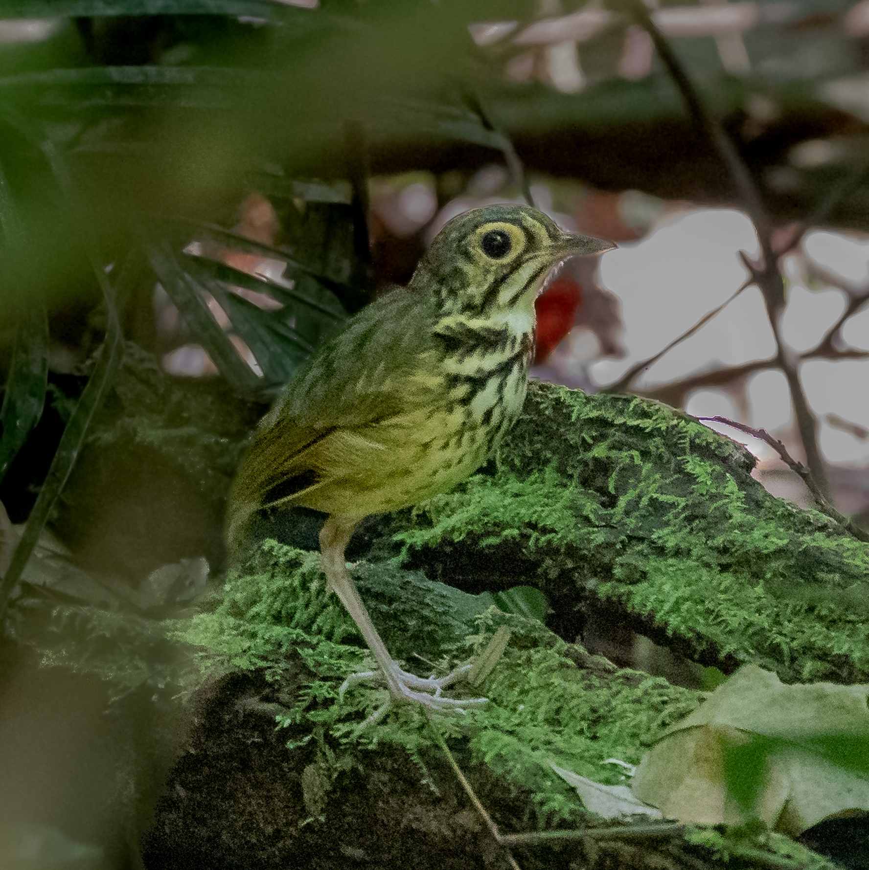 Snethlage's Antpitta, Parauapebas, Pará, Brazil